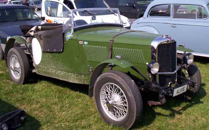 Alvis 12/70 2-Seater Special 1938